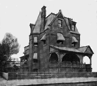 Home of Carlton Godfrey, New Jersey politician